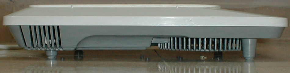 I took this photograph of an Induction Stove which I have in my Kitchen.